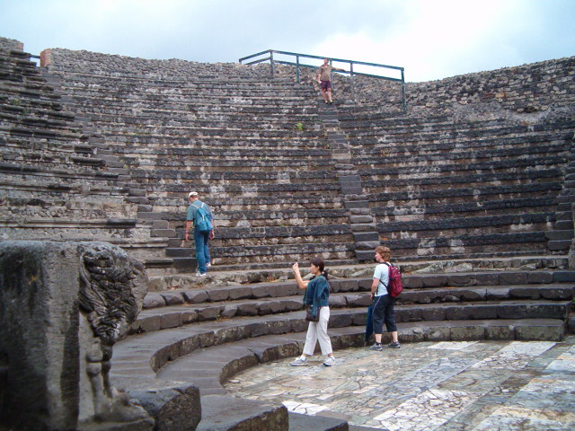 Small theatre, Pompei